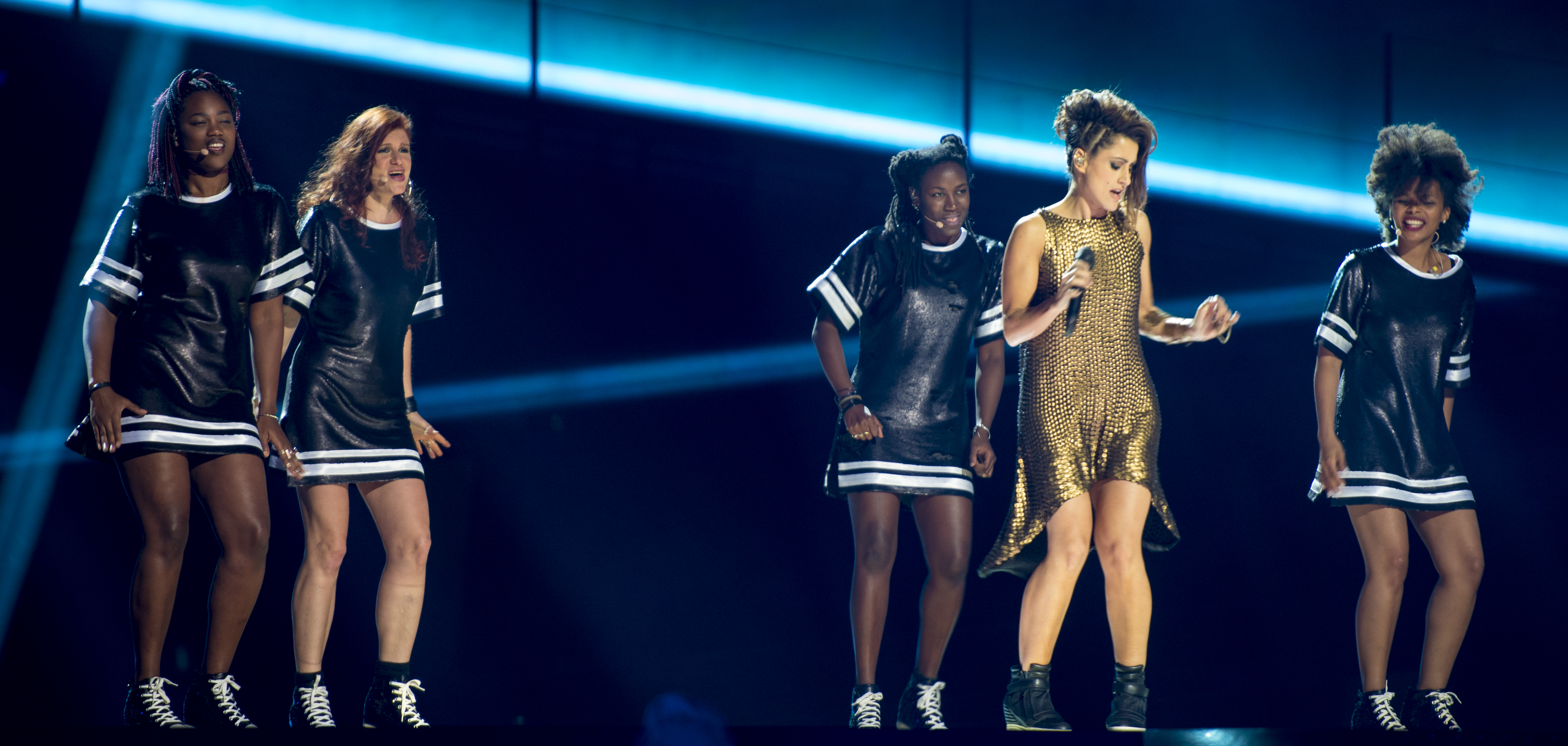 Barei representing Spain with the song "Say Yay!" during a rehearsal for "the Big Five" in the Eurovision Song Contest 2016 in Stockholm. (Help translate this text)